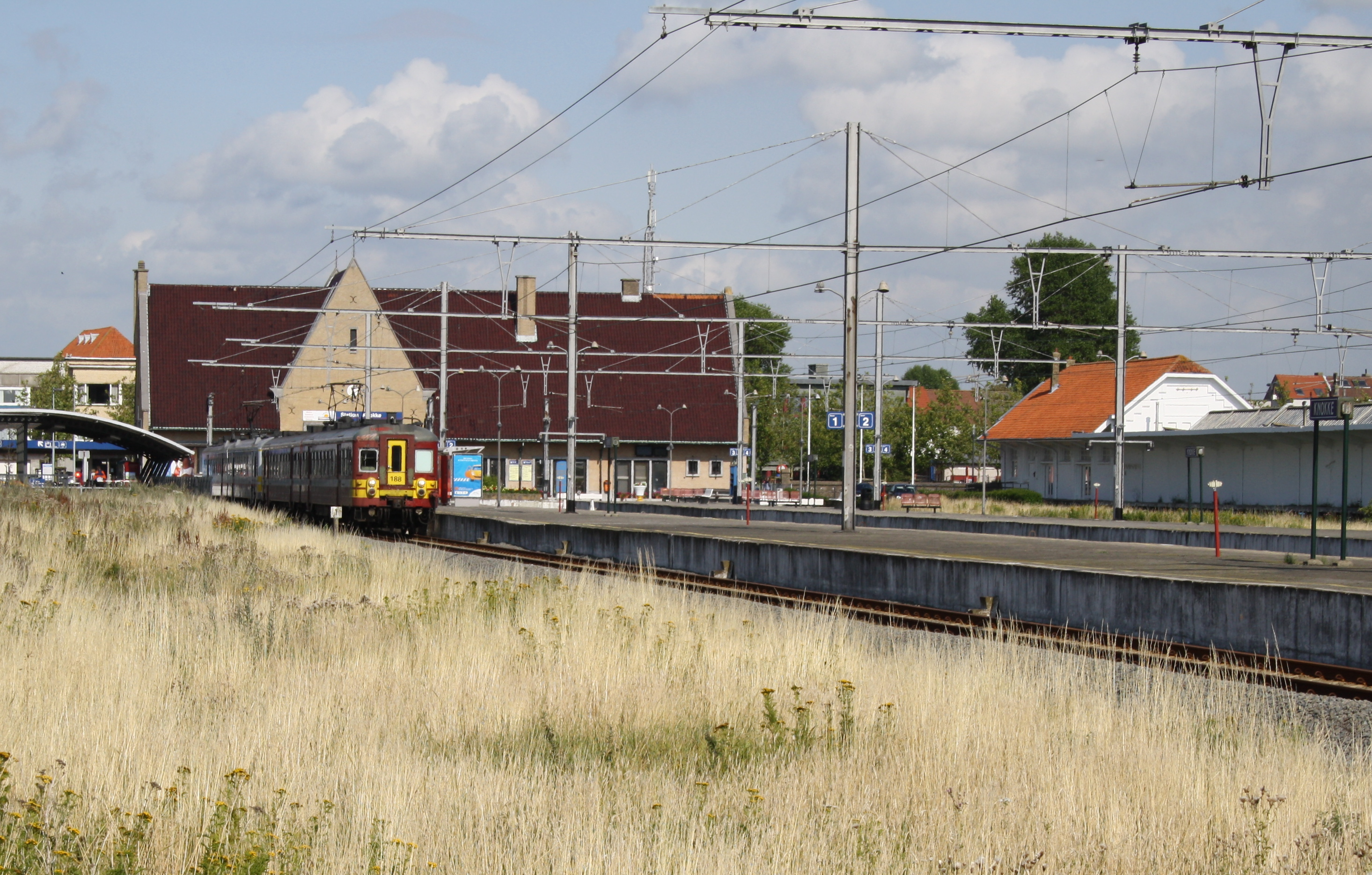 Knokke railway station